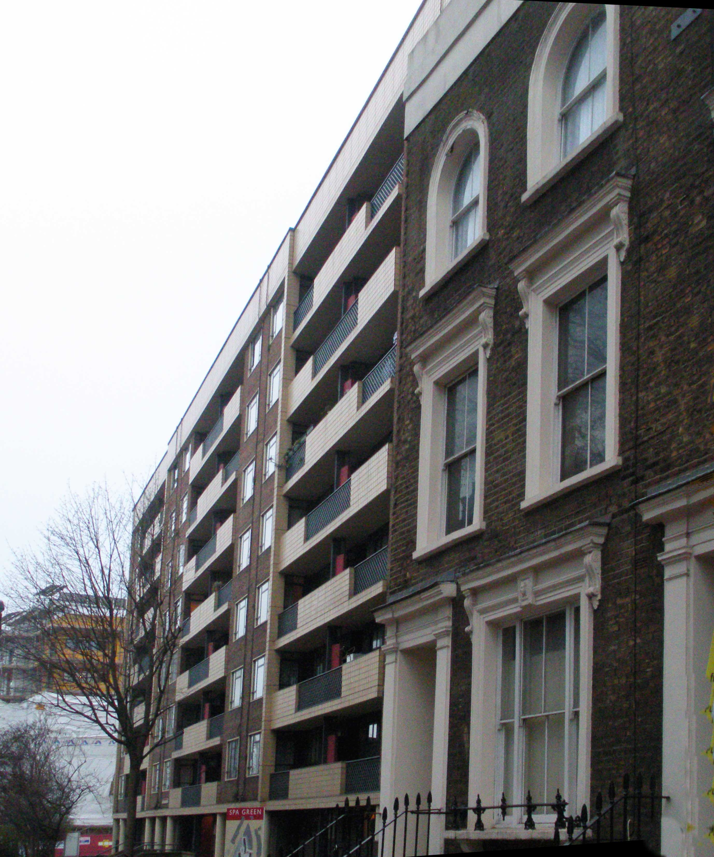 Modernist facade and late-Georgian terrace